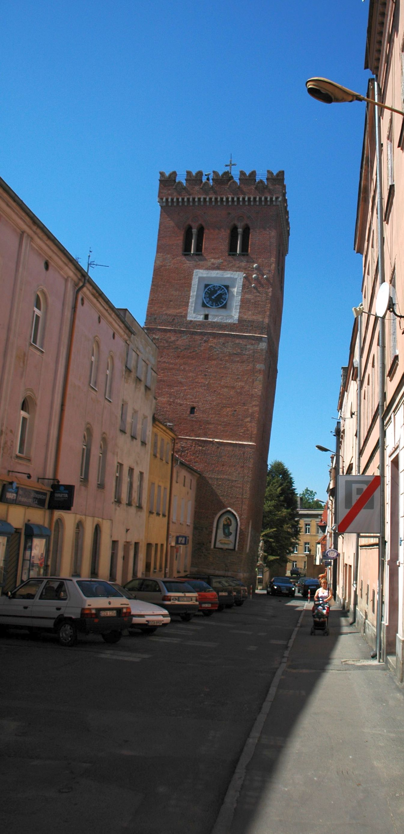 Poland, Ząbkowice Śląskie - Leaning Tower (Krzywa Wieża).